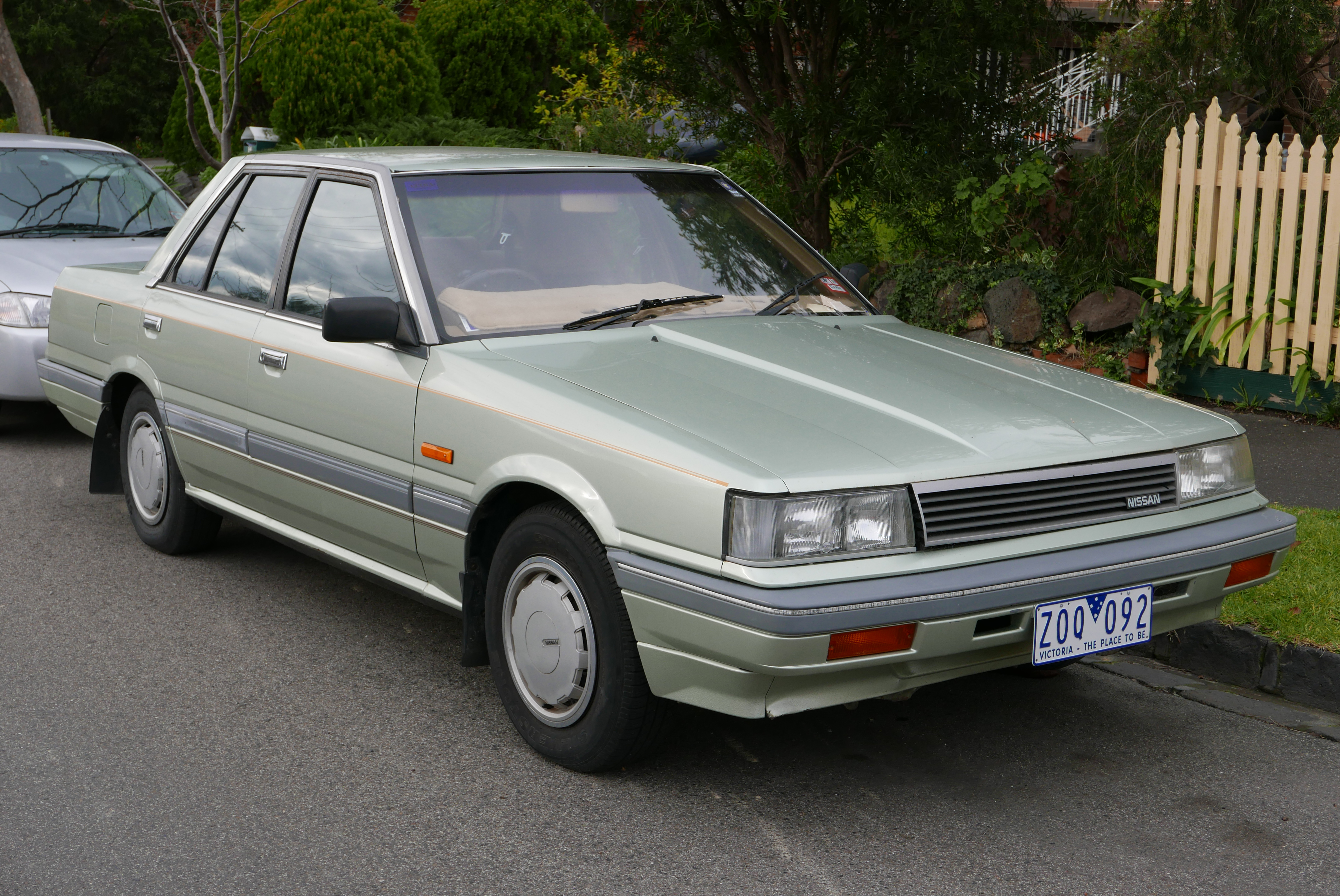 1986 Nissan Pintara (R31) GXE sedan. Photographed in Balwyn, Victoria, Australia. Vehicle registration enquiry results Jurisdiction Victoria Registration ZOQ092 Chassis code Not available Engine code CA2020587 Compliance date Not available Year of manufacture 1986